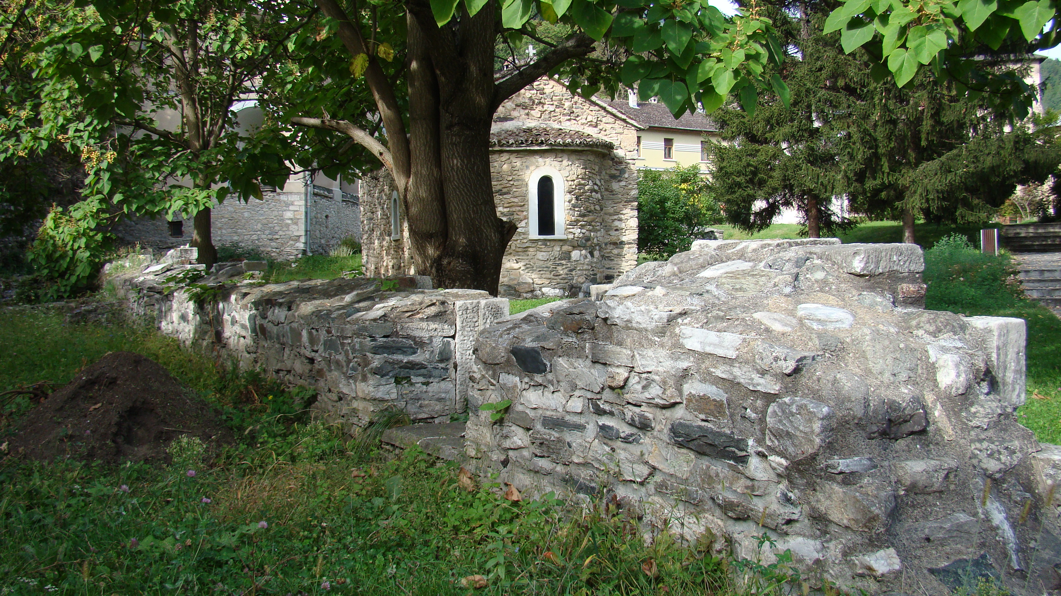 Studenica, 18. septembar 2010.